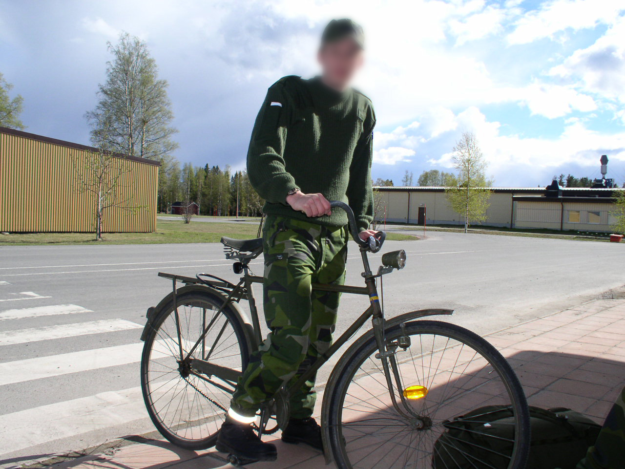 A Swedish military bicycle of unknown model. Picture taken in 2004 at Norrbottens regemente, Boden. Photographer: Johan Elisson License: GFDL Image history of Image:Swedisharmybicycle.jpg: (del) (cur) 23:05, 7 April 2006 . . Johan Elisson . . 1280x960 (382372 bytes) (A Swedish military bicycle of unknown model. Picture taken in 2004 at Norrbottens regemente, Boden.)